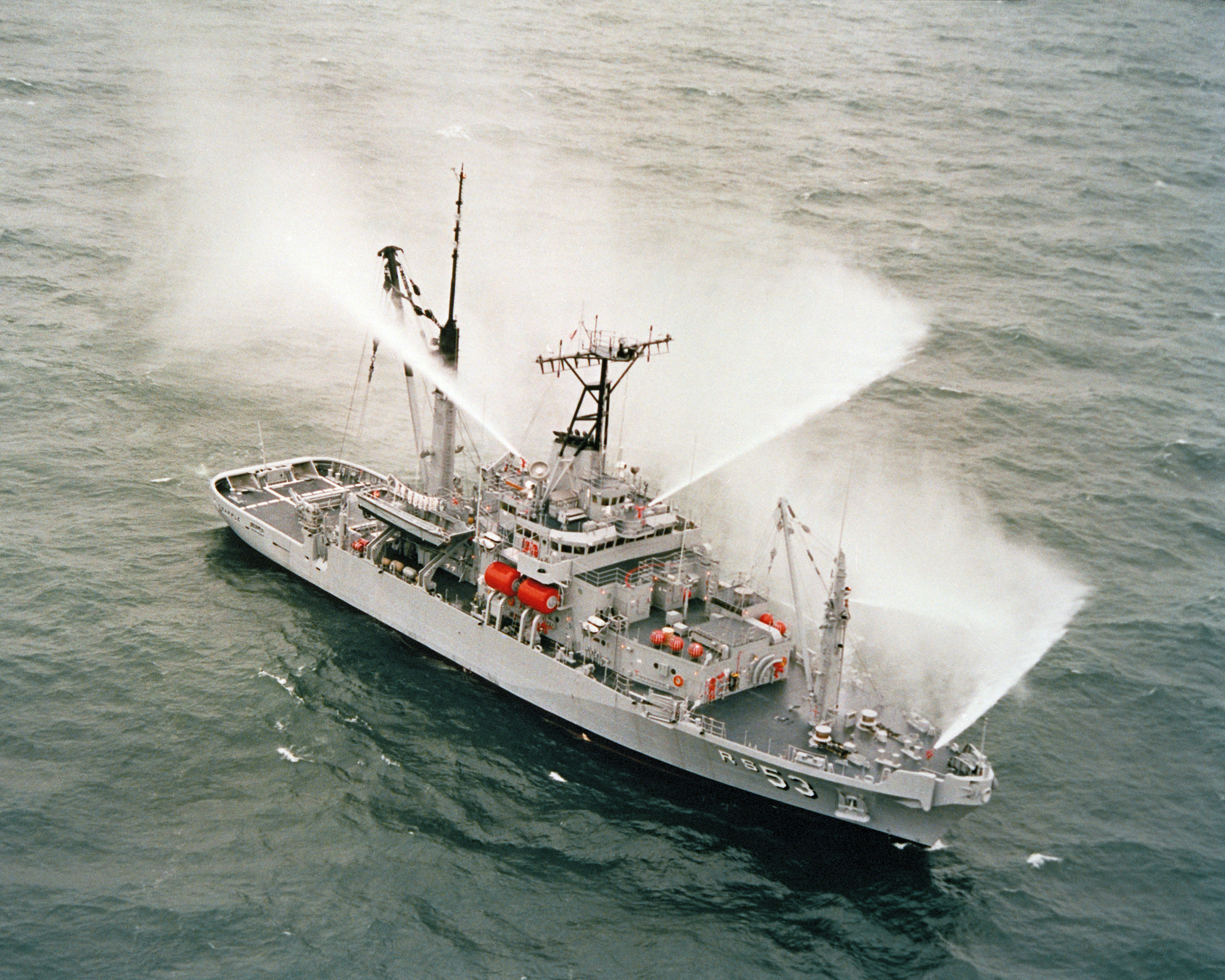 The U.S. Navy salvage and rescue ship USS Grapple (ARS-53) performing a fire monitor's test during acceptance trials in 1986.